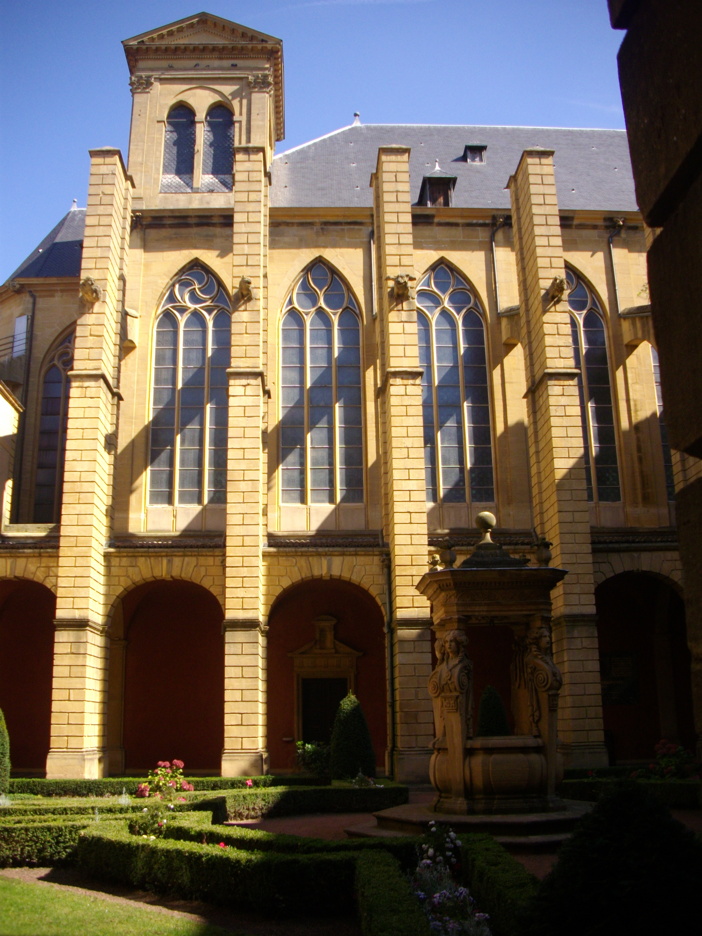 Buttresses of the church seen from the cloister of the former Saint Clement abbey in Metz (Moselle, France) .